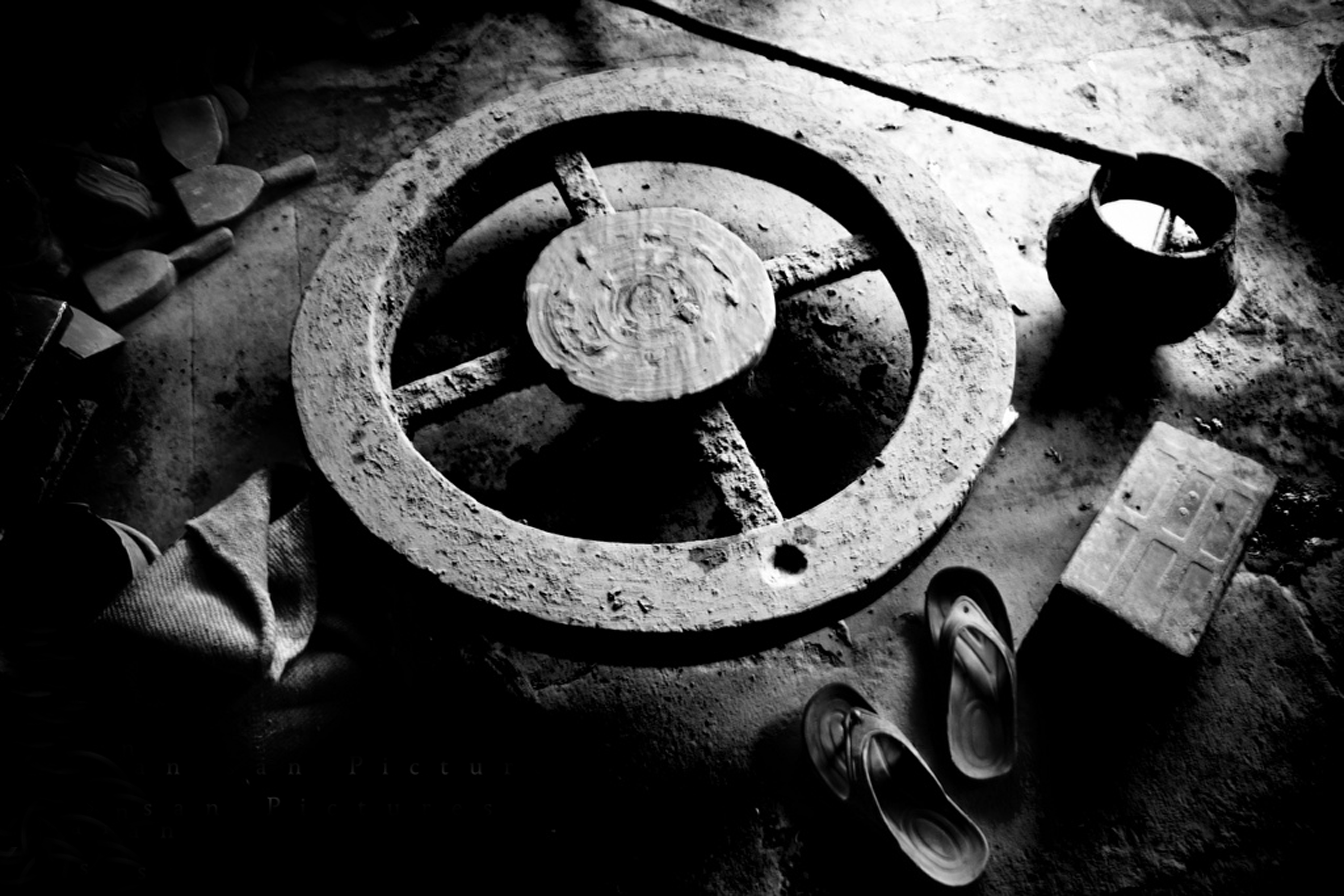 A Potter getting ready for his day, shot at thiruneermalai, chennai